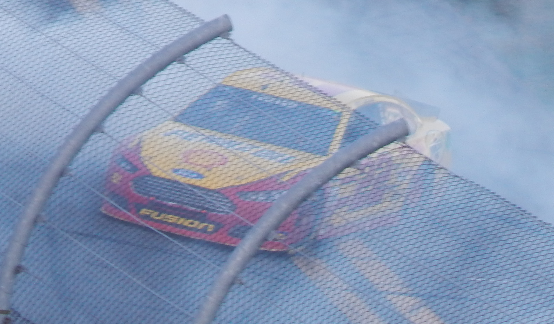 Joey Logano doing burnouts to celebrate winning the Daytona 500.